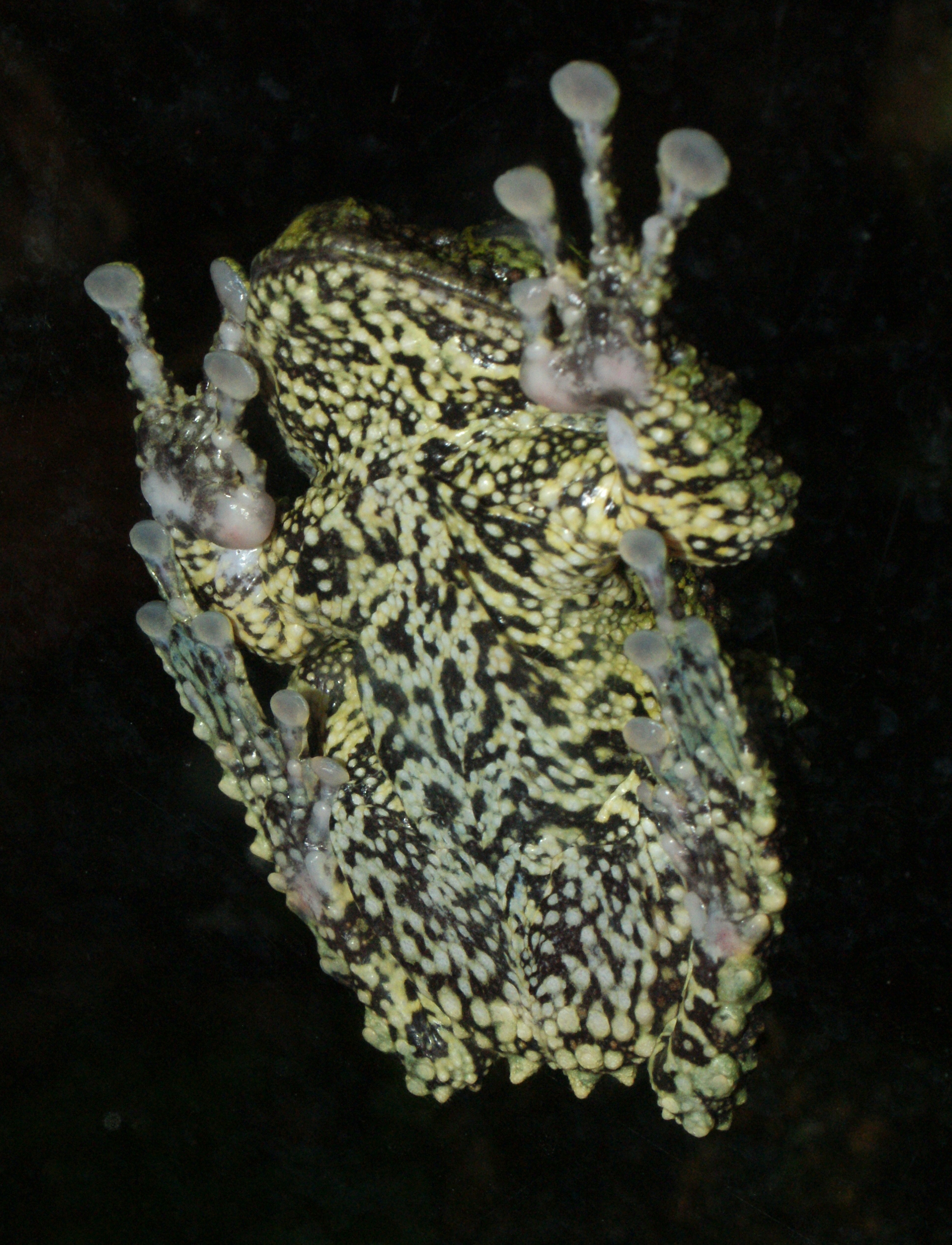 Mossy frog (Theloderma corticale)